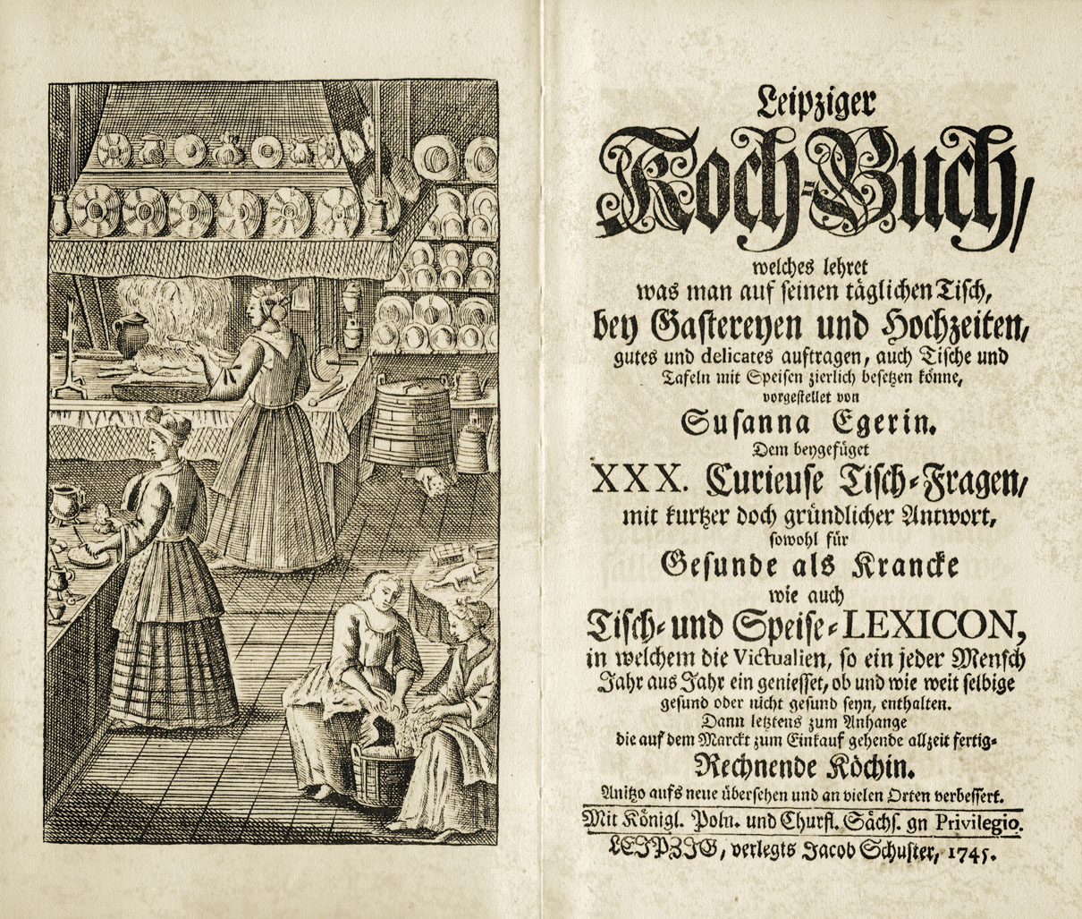 Title page of the 1747 edition of Susanna Egerin's Leipziger Kochbuch, first published 1706